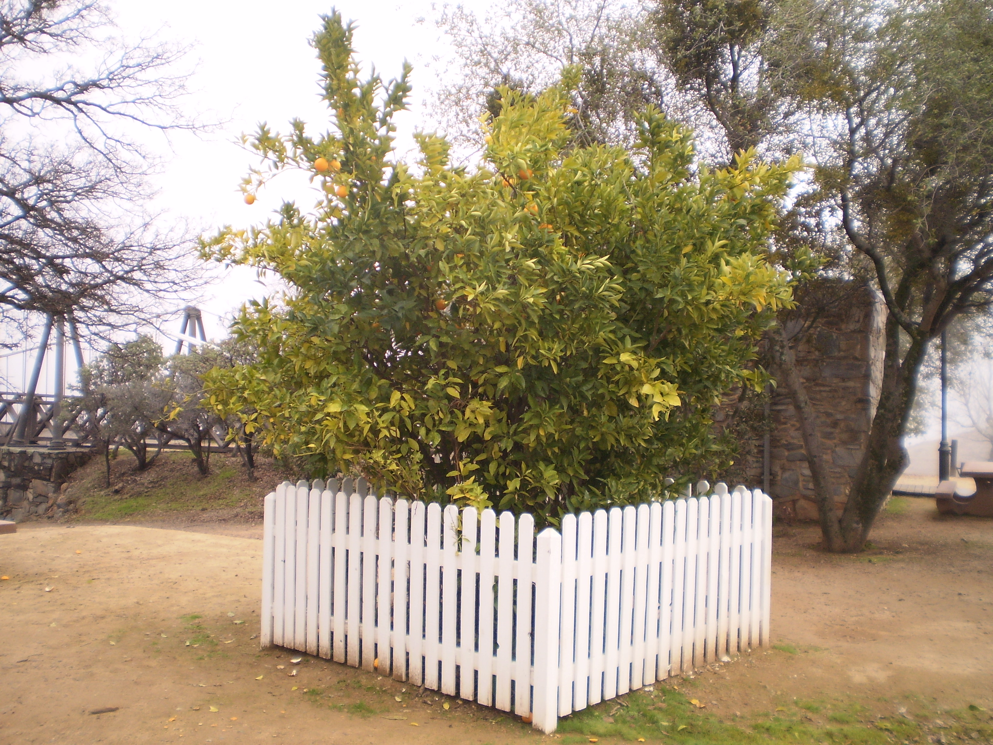 The Mother Orange Tree — the first planted and oldest living orange tree (Citrus sinensis cultivar) in Northern California. Originally planted in 1856 in Bidwell's Bar, at the western approach to the 1855 Bidwell Bar Bridge over the Feather River. Transplanted in 1964, near the also relocated historic bridge, with both now beside (instead of under) Lake Oroville, in Butte County.